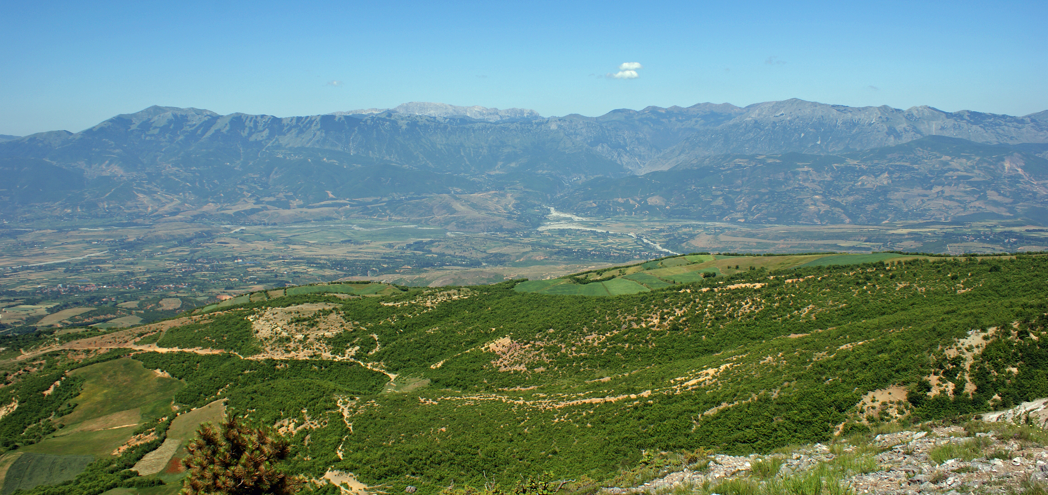 View over the Drin valley in Dibra, Eastern Albania – in the center is rocky Mount Deja (2244 m), to the right the mountains of Lura with Maja Kunora e Lurës (2119 m) as highest peak